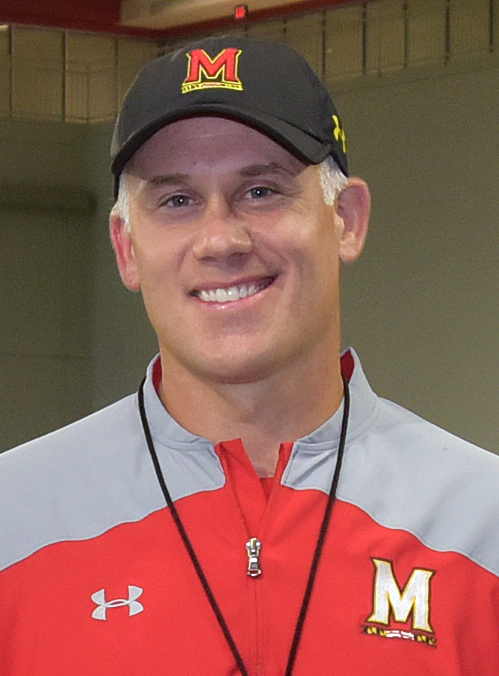 Governor Hogan visits University of Maryland Football Team by Tom Nappi at College Park, Maryland